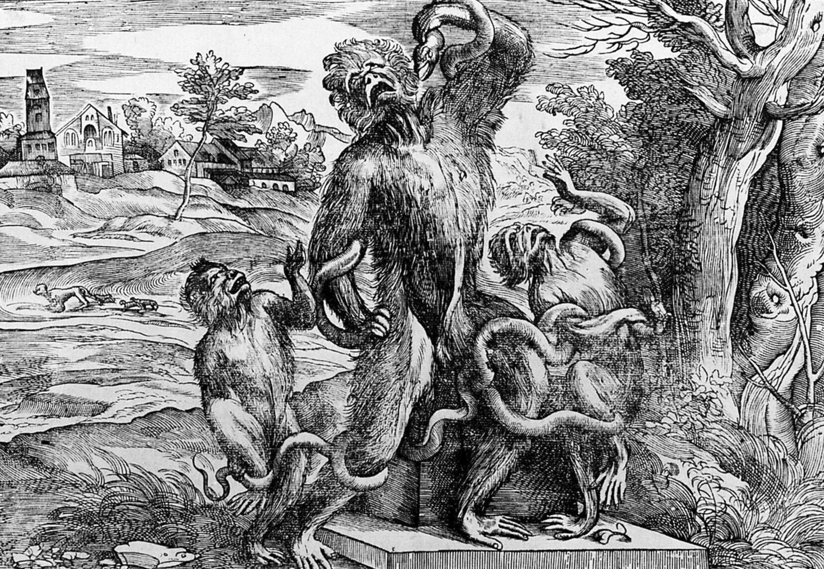 From Wikipedia's article Laocoön and His Sons: A woodcut, possibly after a drawing by Titian, parodied the sculpture by portraying three apes instead of humans. It has often been interpreted as a satire on the clumsiness of Bandinelli's copy, but it has also been suggested that it was a commentary on debates of the time about similarities between human and ape anatomy.